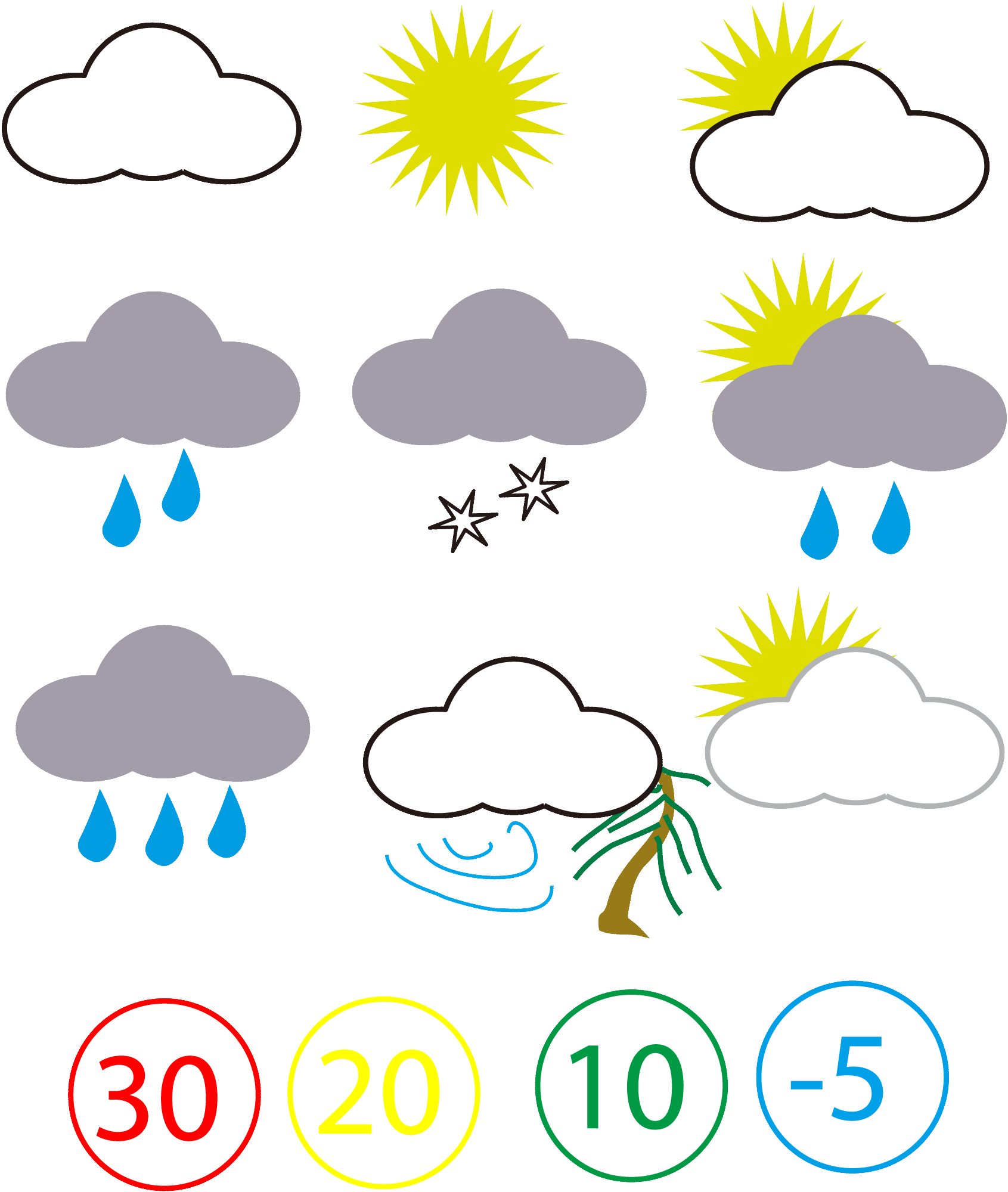 Symbols for various kinds of weather.